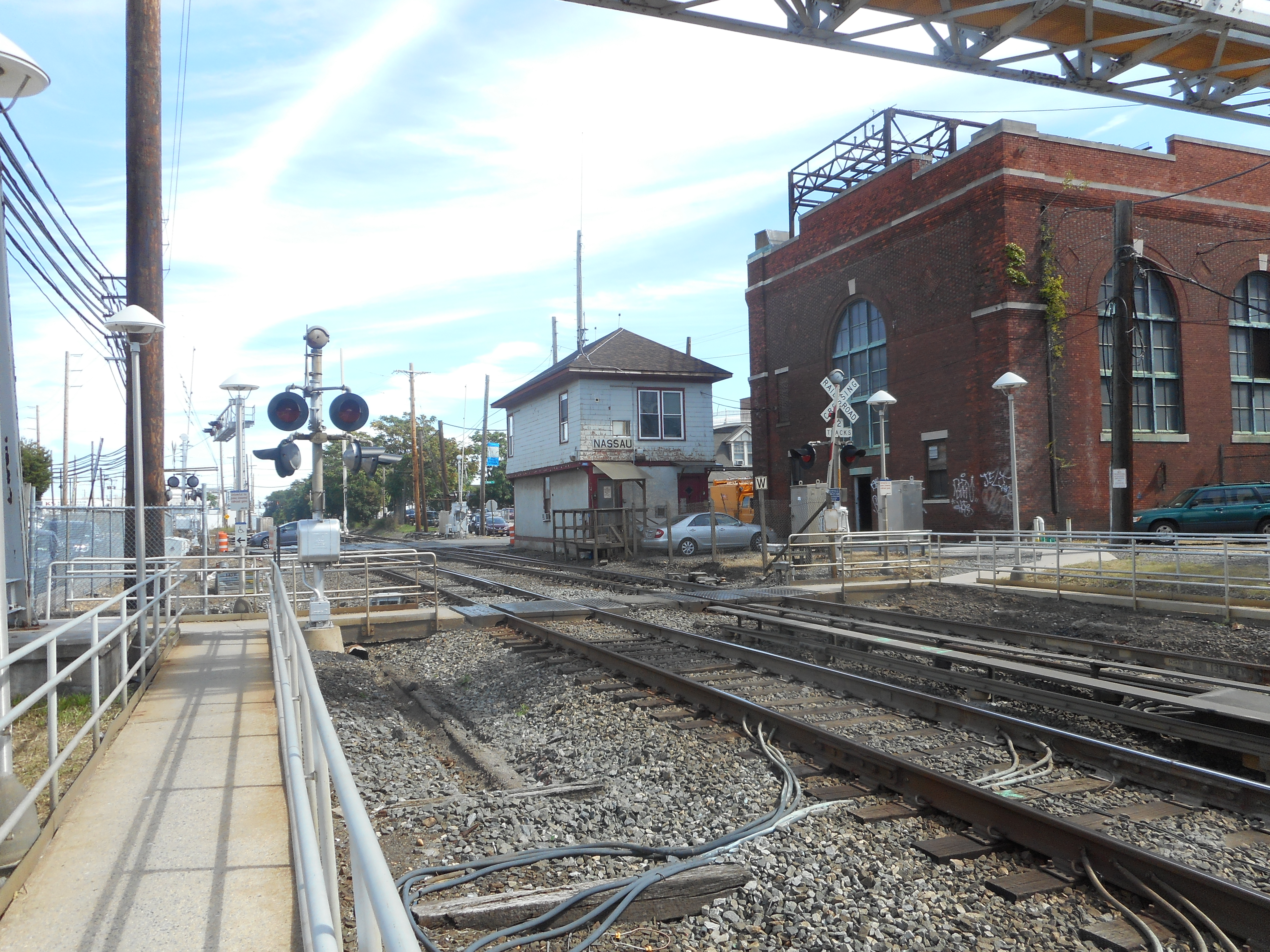 Close-up view of the Mineola Pedestrian Crossing, the Nassau Tower, and the Long Island Rail Road substation at the east end of the Jamaica-bound (and all other New York City terminals too) platform.